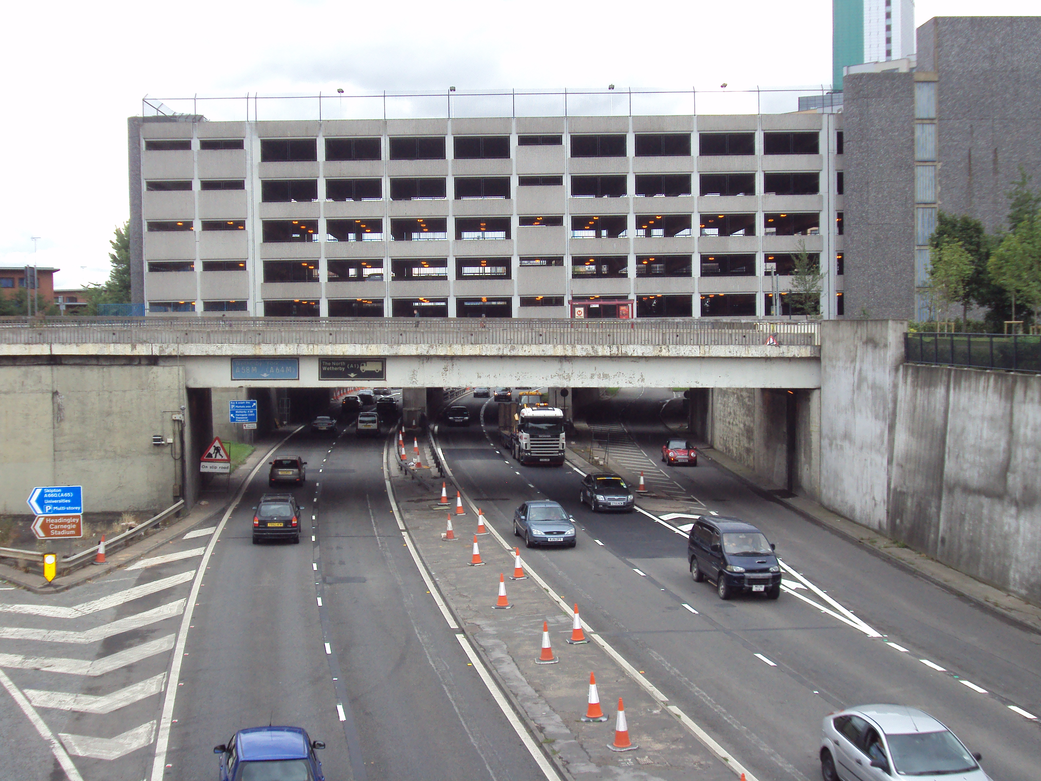 A58(M) section of the Leeds inner ring road. This shows the Woodhouse Lane multi-storey car park. This building is recognisable as 'The multi-storey car park' in the Beiderbecke Affair.